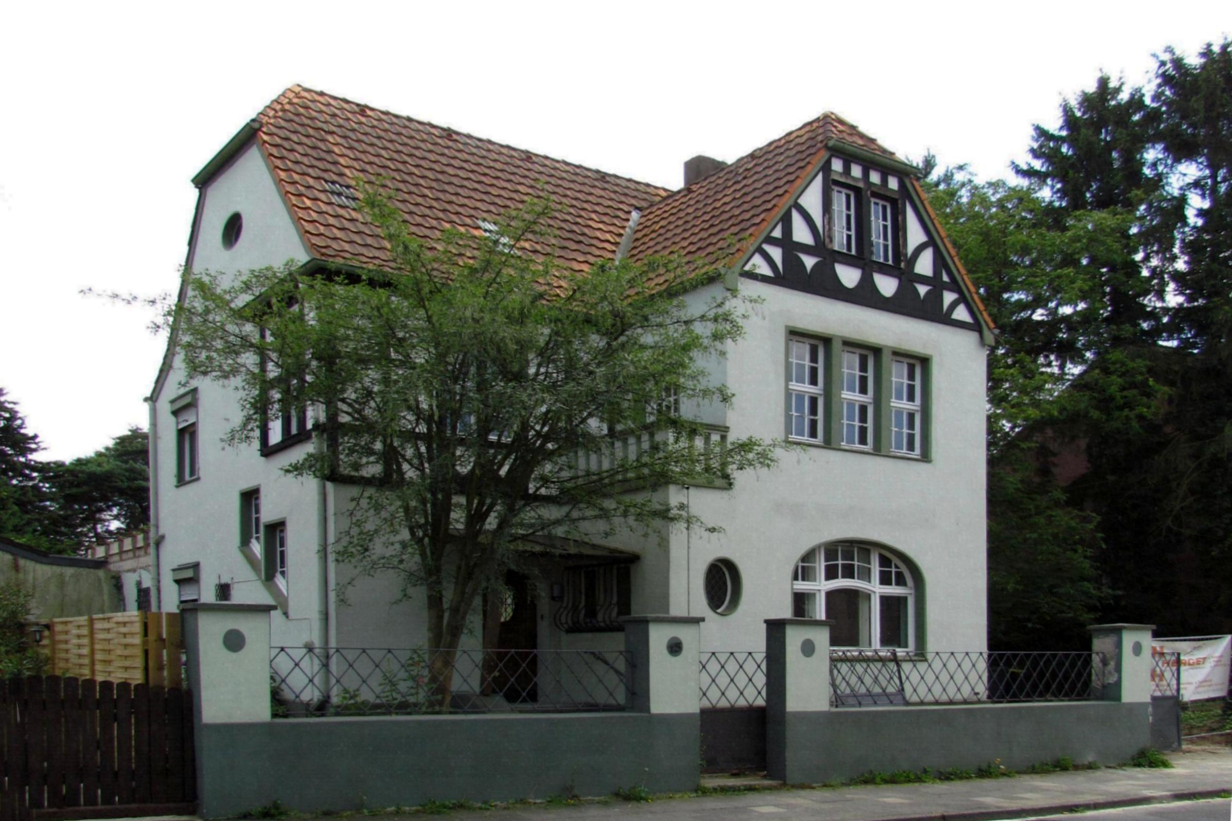 This is a photograph of an architectural monument.